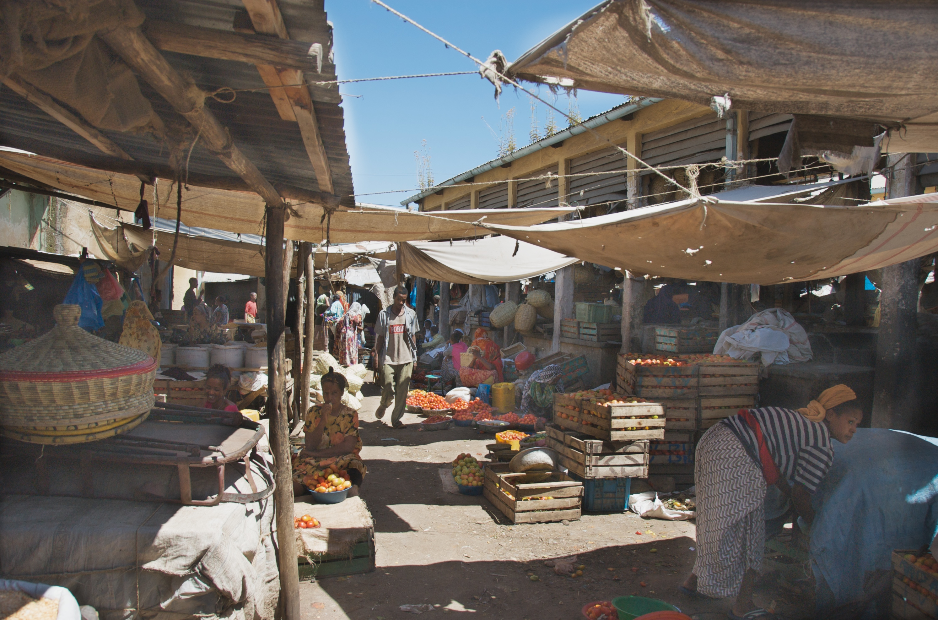 The combination of bright sunlight and deep shade makes it difficult to photograph outdoor markets.